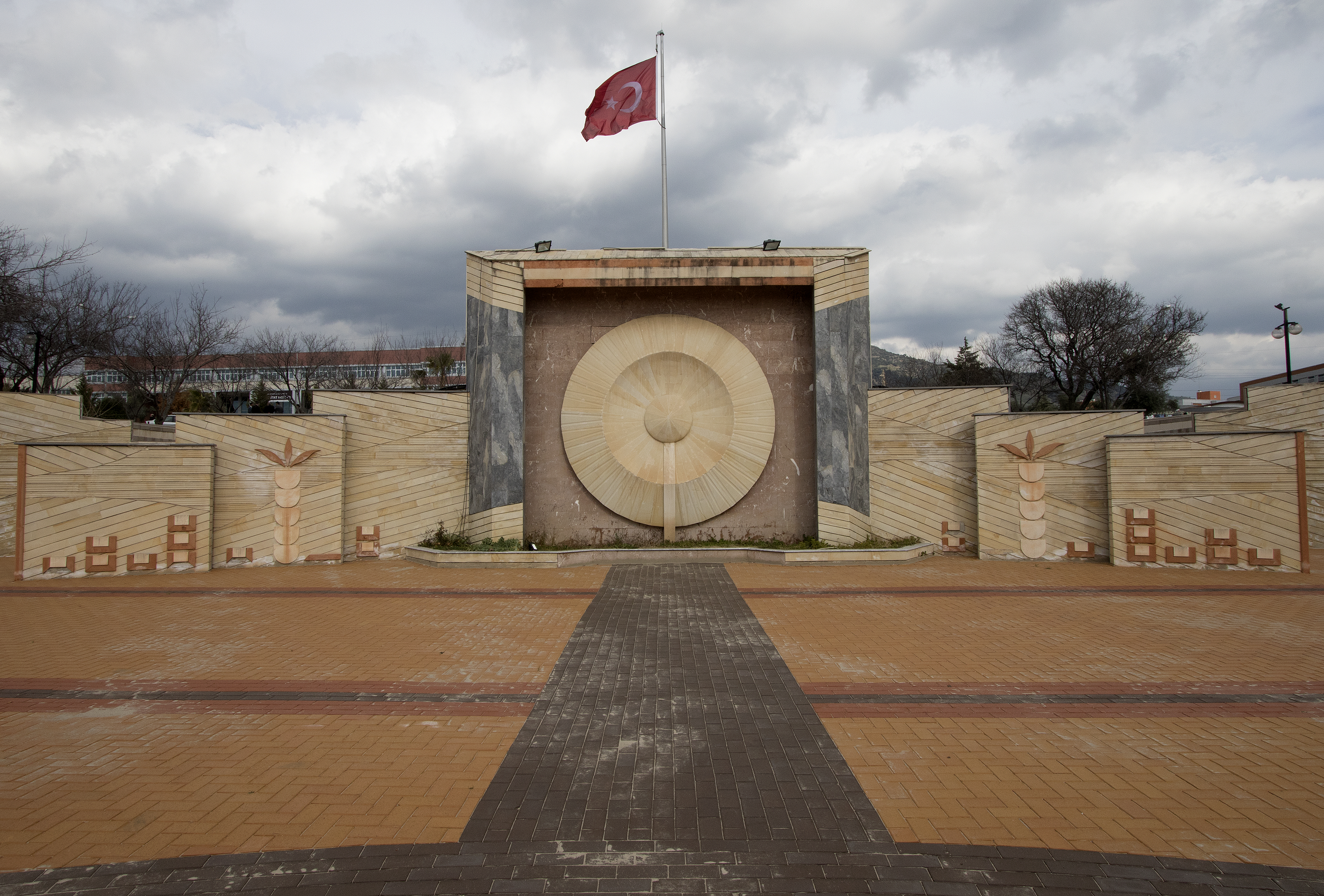 A view of the southern wall of Tralleis Amphitheater at Adnan Menderes University Campus. Aydın, Turkey.